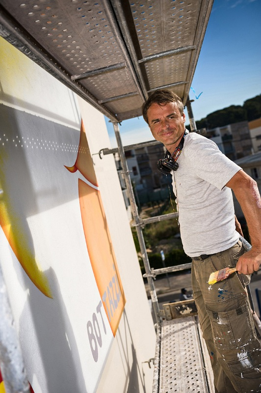 Guillaume Bottazzi, work in process, Marseille Provence 2013, European capital of culture